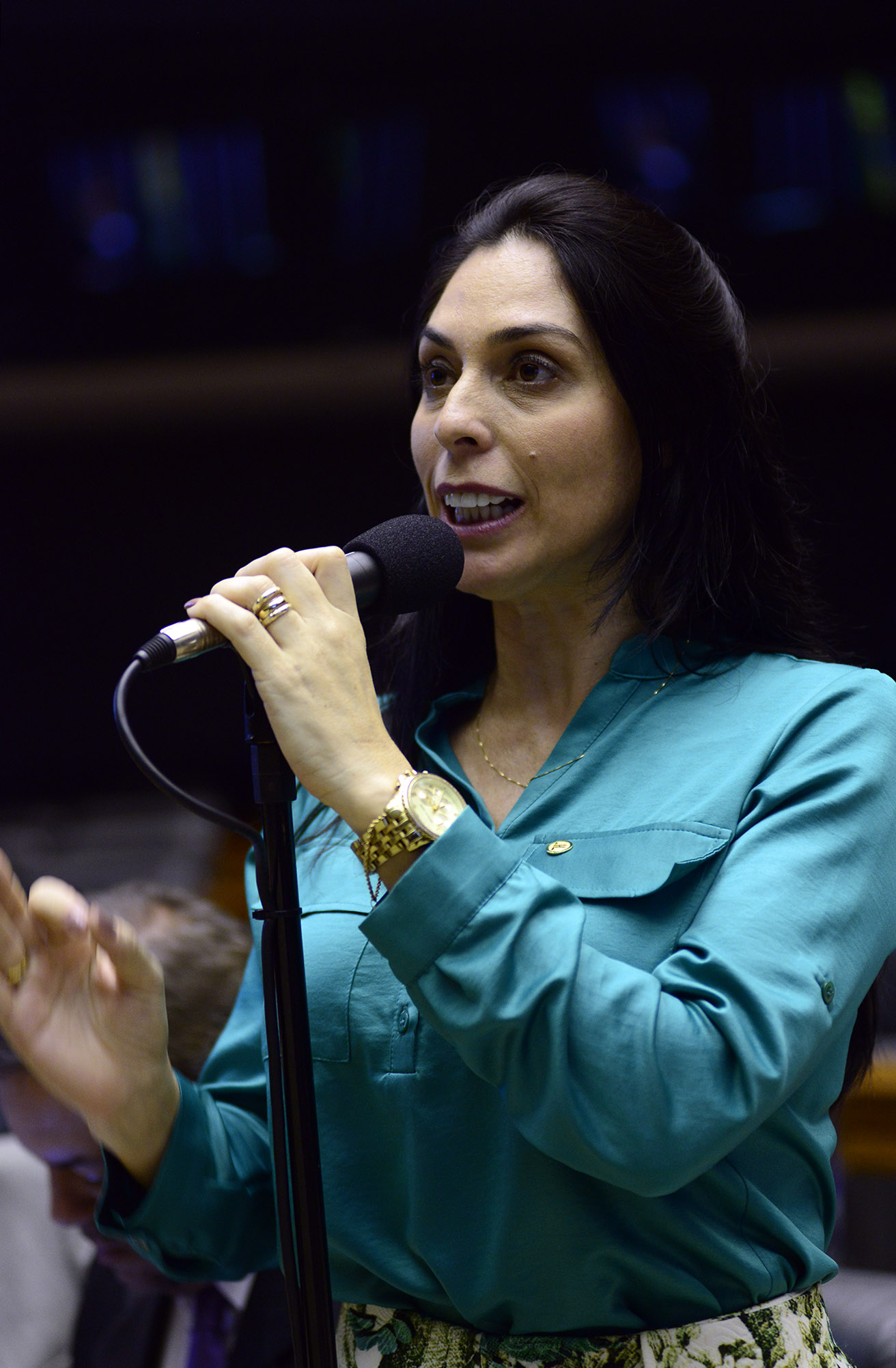 Geovania de Sá em outubro de 2015.